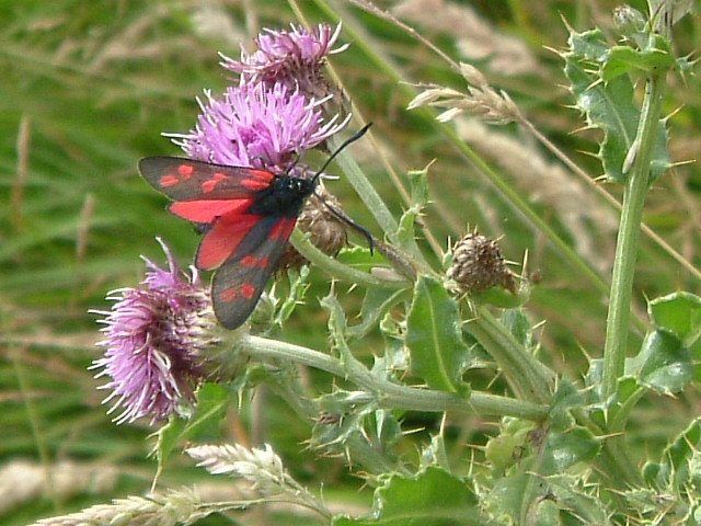 Six Spot Burnet Moth, Dunstanburgh Castle. This photo was taken by my 8 year old daughter Megan. This distinctive day-flying moth can be found in abundance in the grounds of Dunstanburgh during the months of July and August.